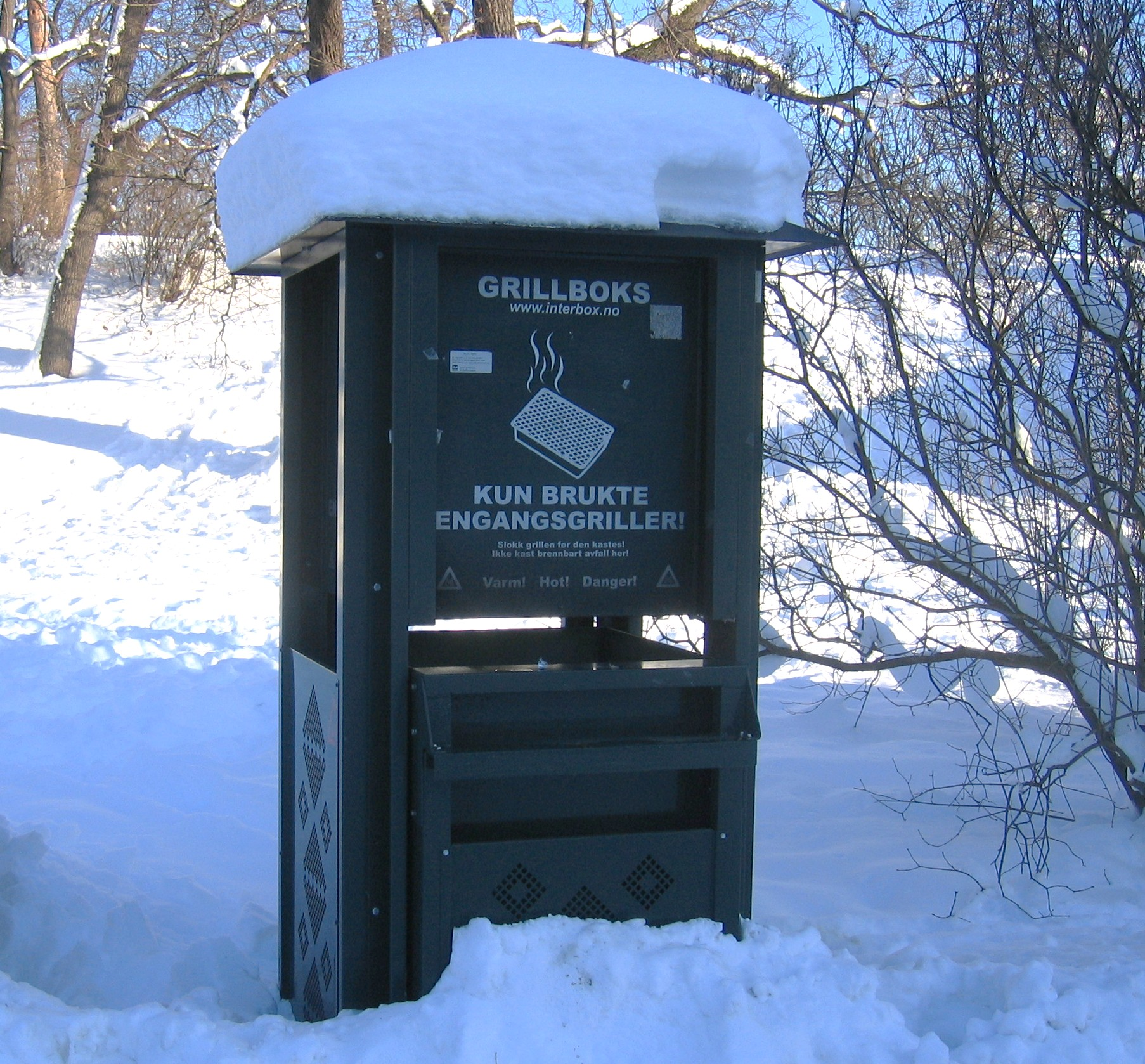 Depot for one-time barbeques in Frognerparken